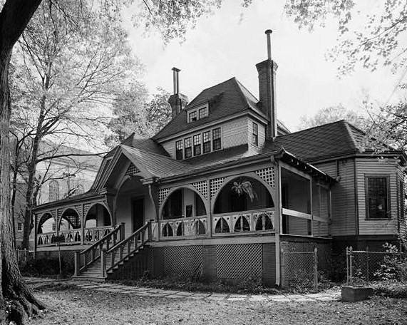 Joel Chandler Harris House, 1050 Gordon Street, (Atlanta, Georgia) (cropped)